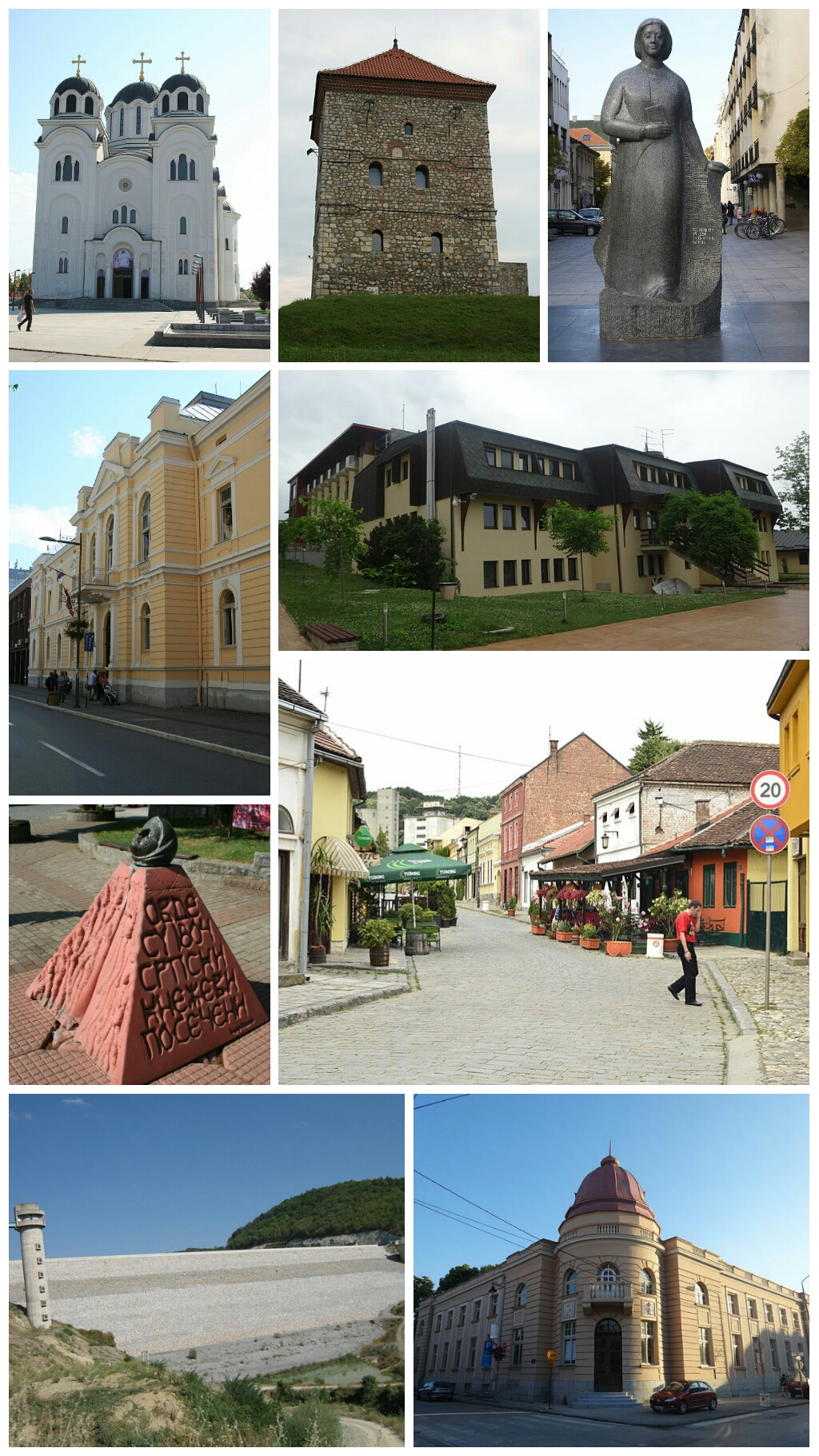 Collage of Valjevo (Temple of Our Lord's Resurrection, The Nenadović Tower, Desanka Maksimović monument, Court buidling, Petnica Science Center, Monument to Slaughter of the Knezes, Tešnjar- old urban settlement in Valjevo, The dam and reservoir Stubo - Rovni, Home Library "Ljubomir Nenadovic)